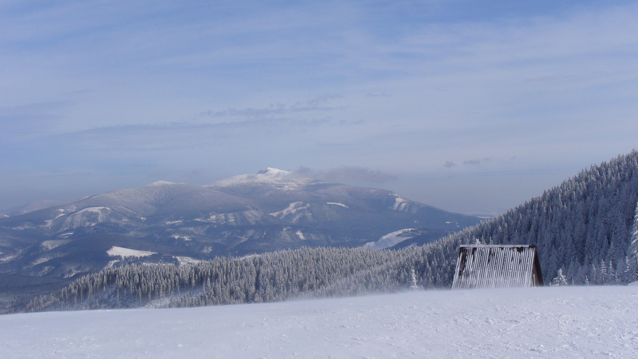 Mount Babia Góra in winter - view from Hala Miziowa.